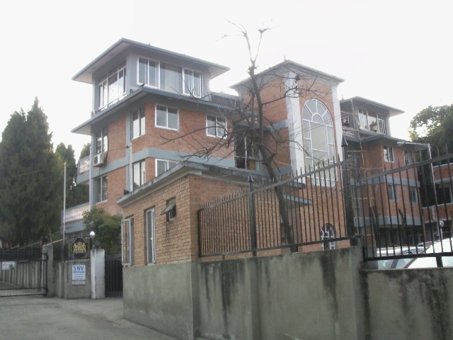 Dutch embassy to Nepal